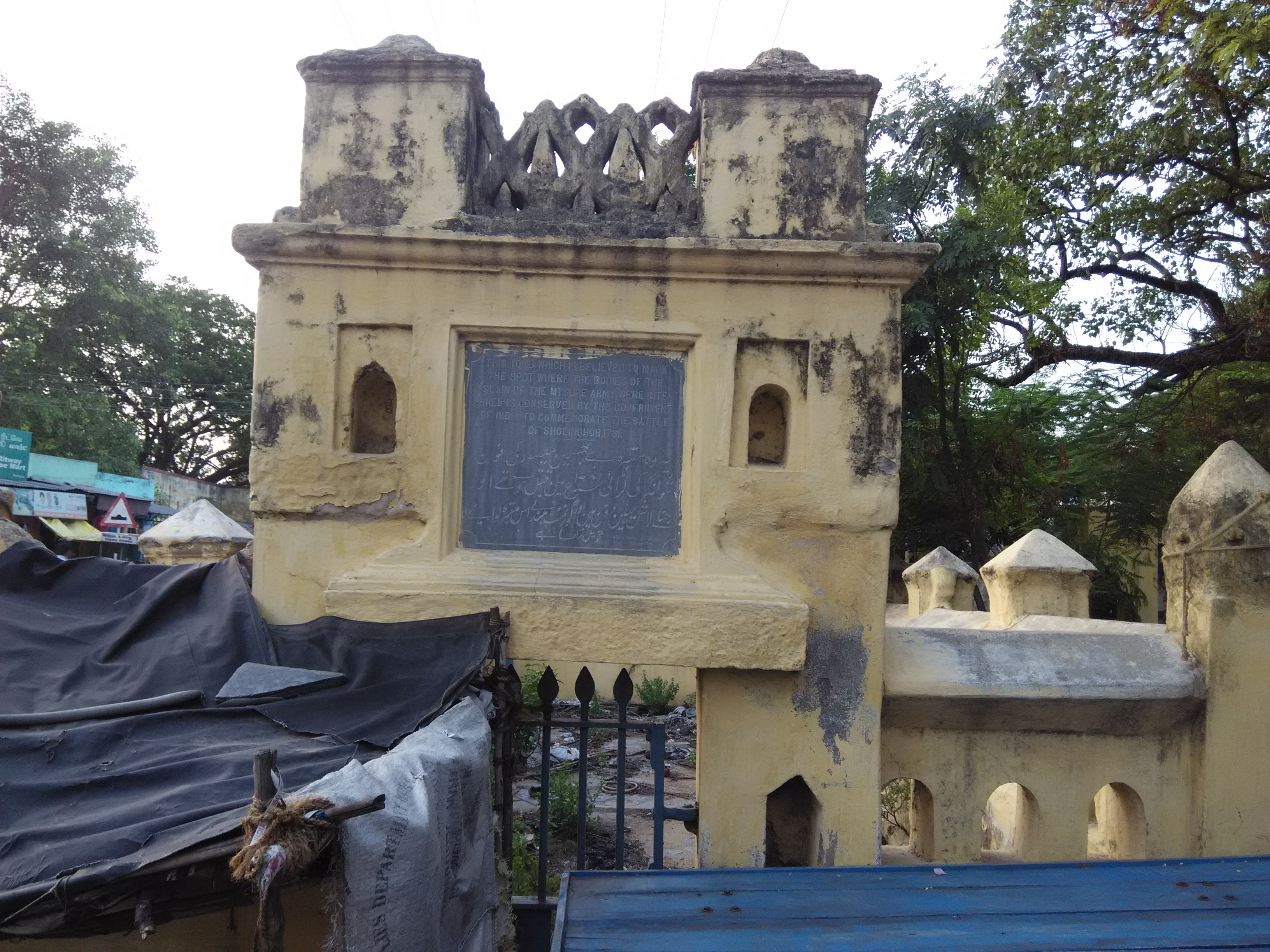 Kanja Sahib Tomb